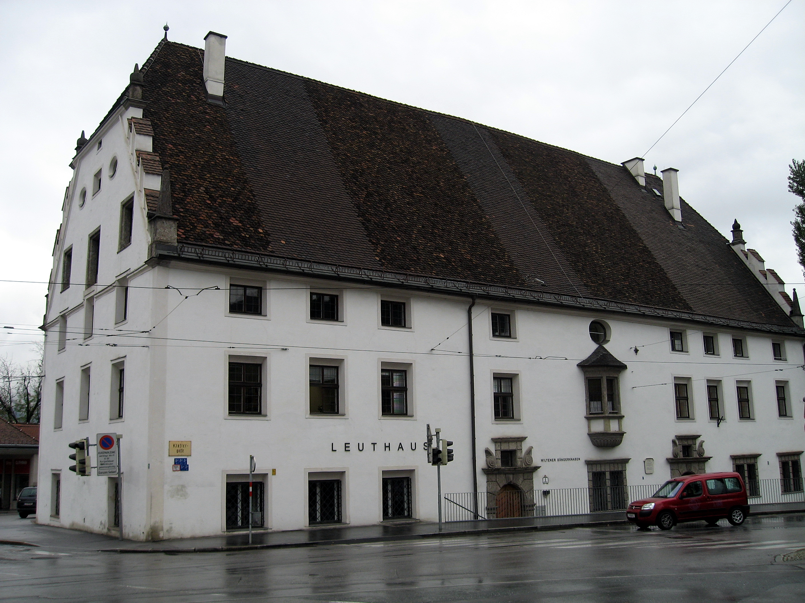 Österreich, Innsbruck, das «Leuthaus» beim Stift Wilten am Fuße des Bergisel, Heimat der Wiltener Sängerknaben This media shows the remarkable cultural object in the Austrian state of Tyrol listed by the Tyrolean Art Cadastre with the ID 68348. (on tirisMaps, on tirisdienste.at, pdf, more images on Commons)